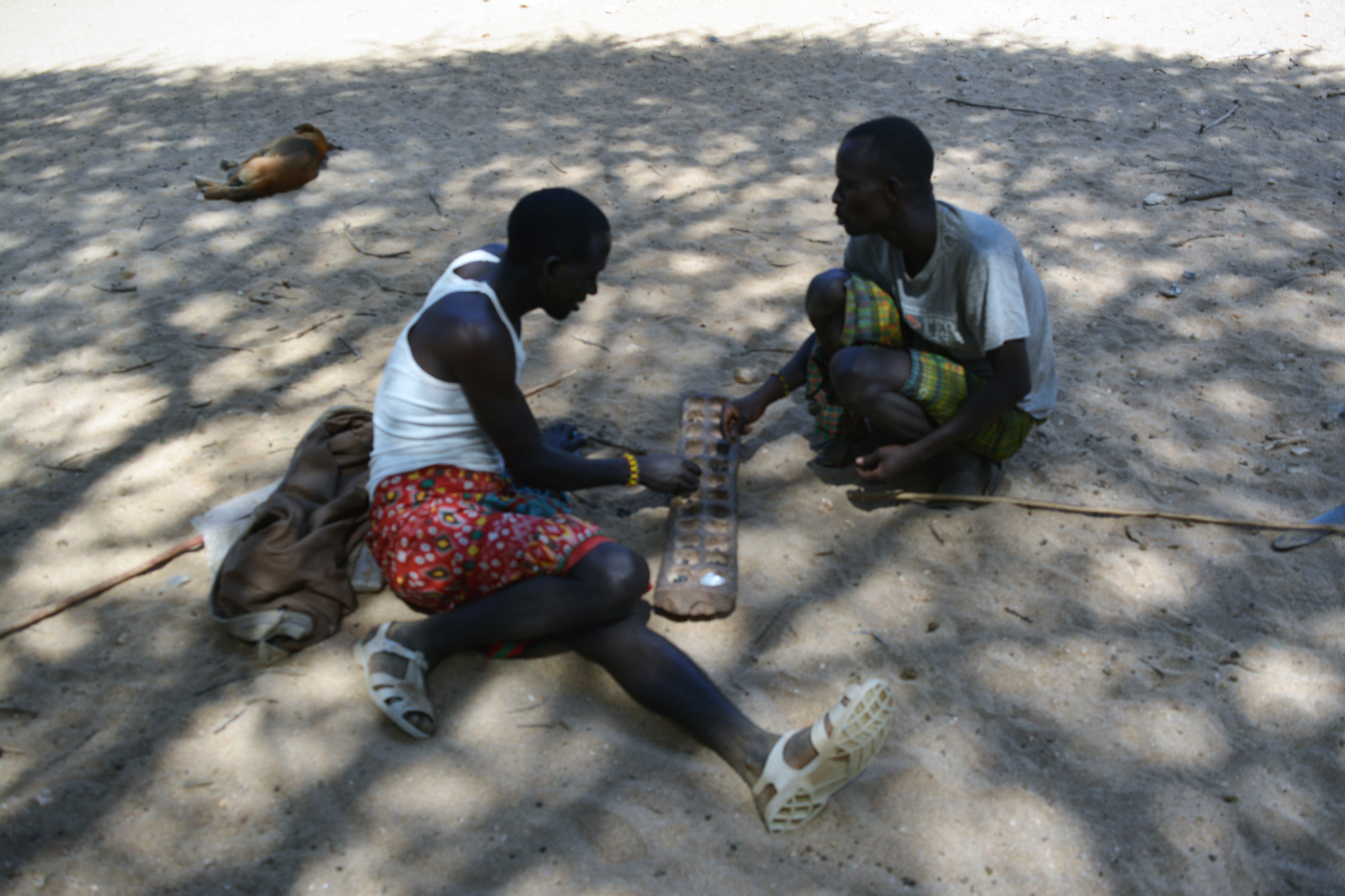 North Horr is a place located in northern Kenya where most of the residents are herders. The board game is played by men while out herding the cattle. This is an image with the theme "Play" from: Kenya